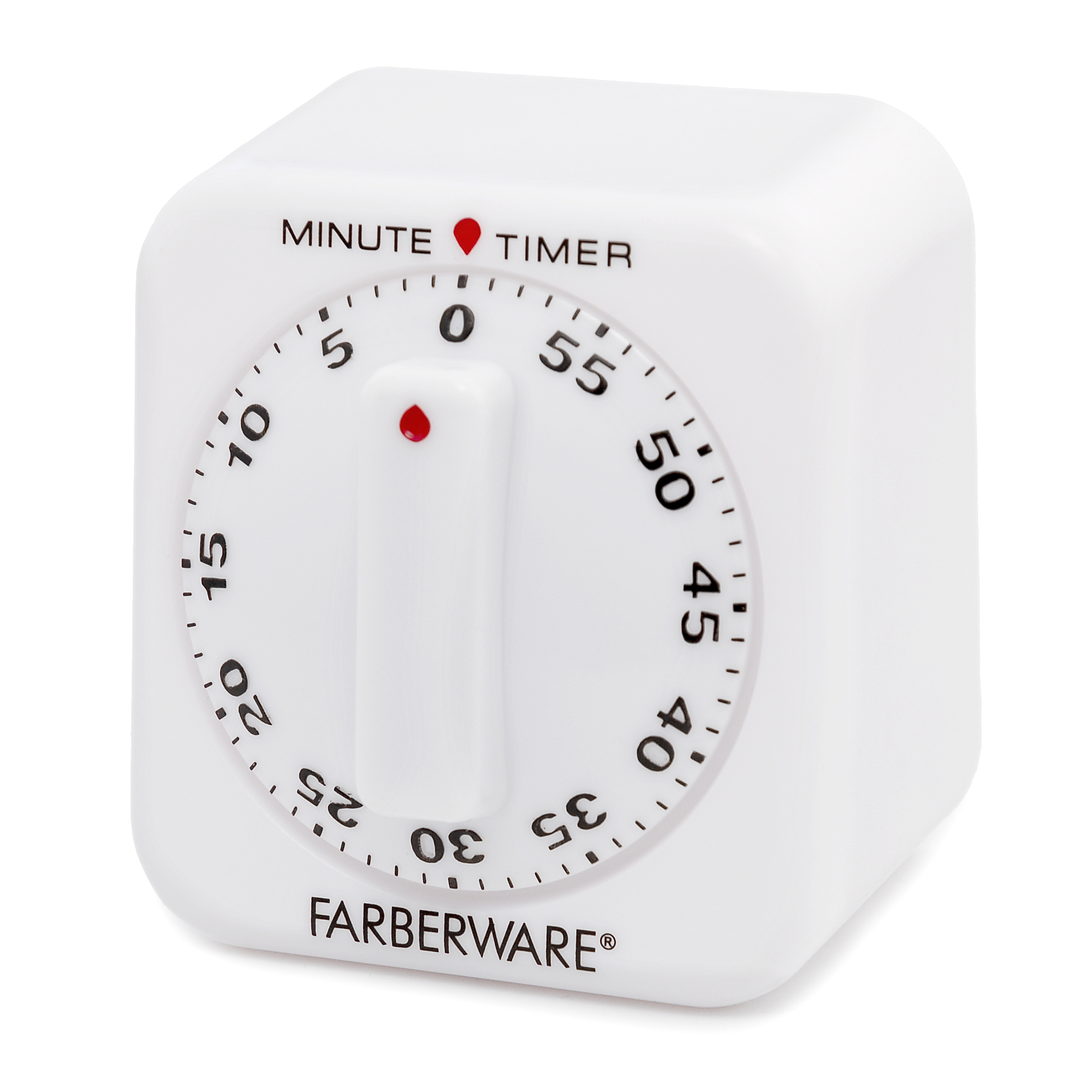 A Farberware brand minute timer, commonly used in kitchens for keeping track of cooking times.